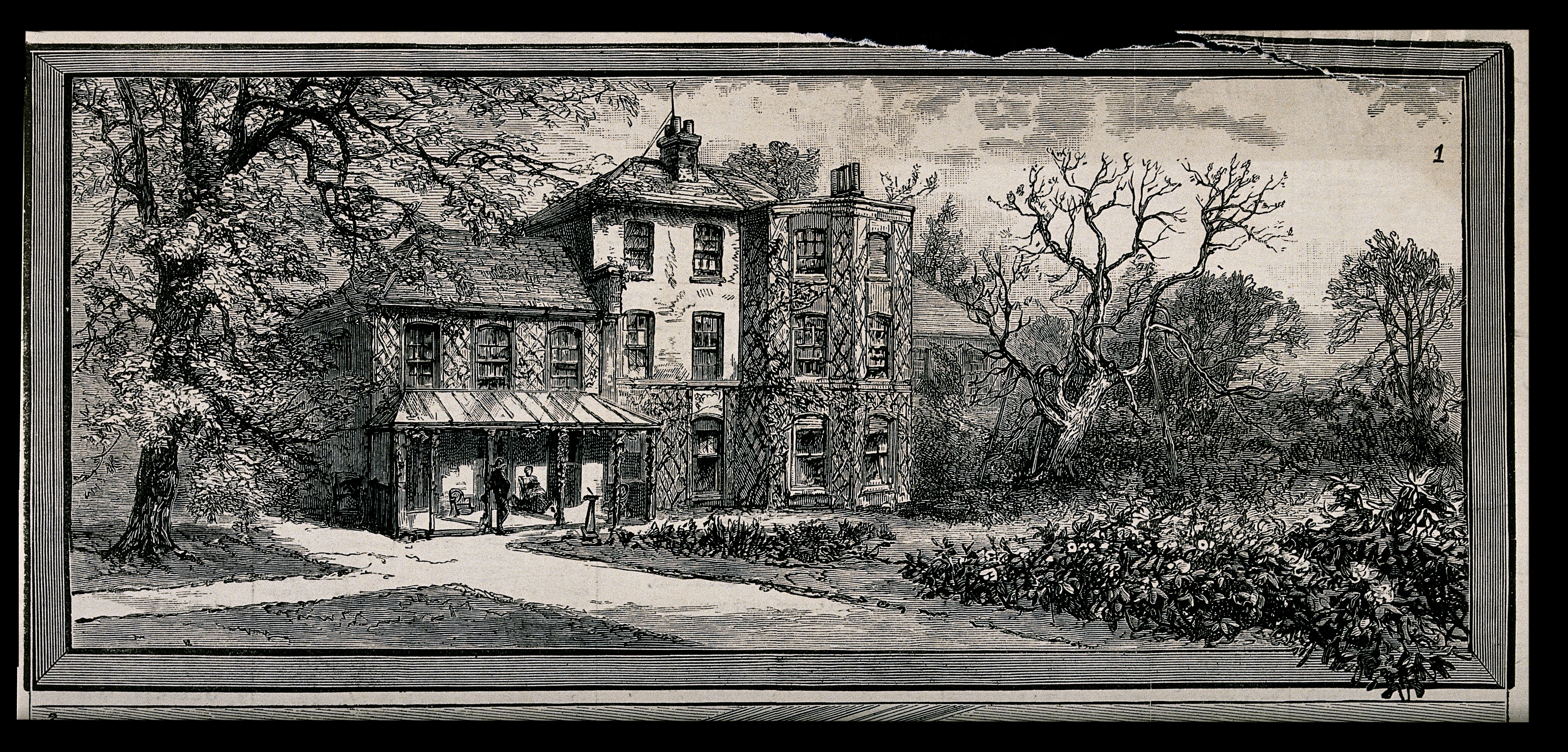 The house of Charles Darwin (Down House) in Kent. Wood engraving by J. R. Brown. Iconographic Collections Keywords: Down House (Downe, Kent); J. R. Brown; Charles Darwin